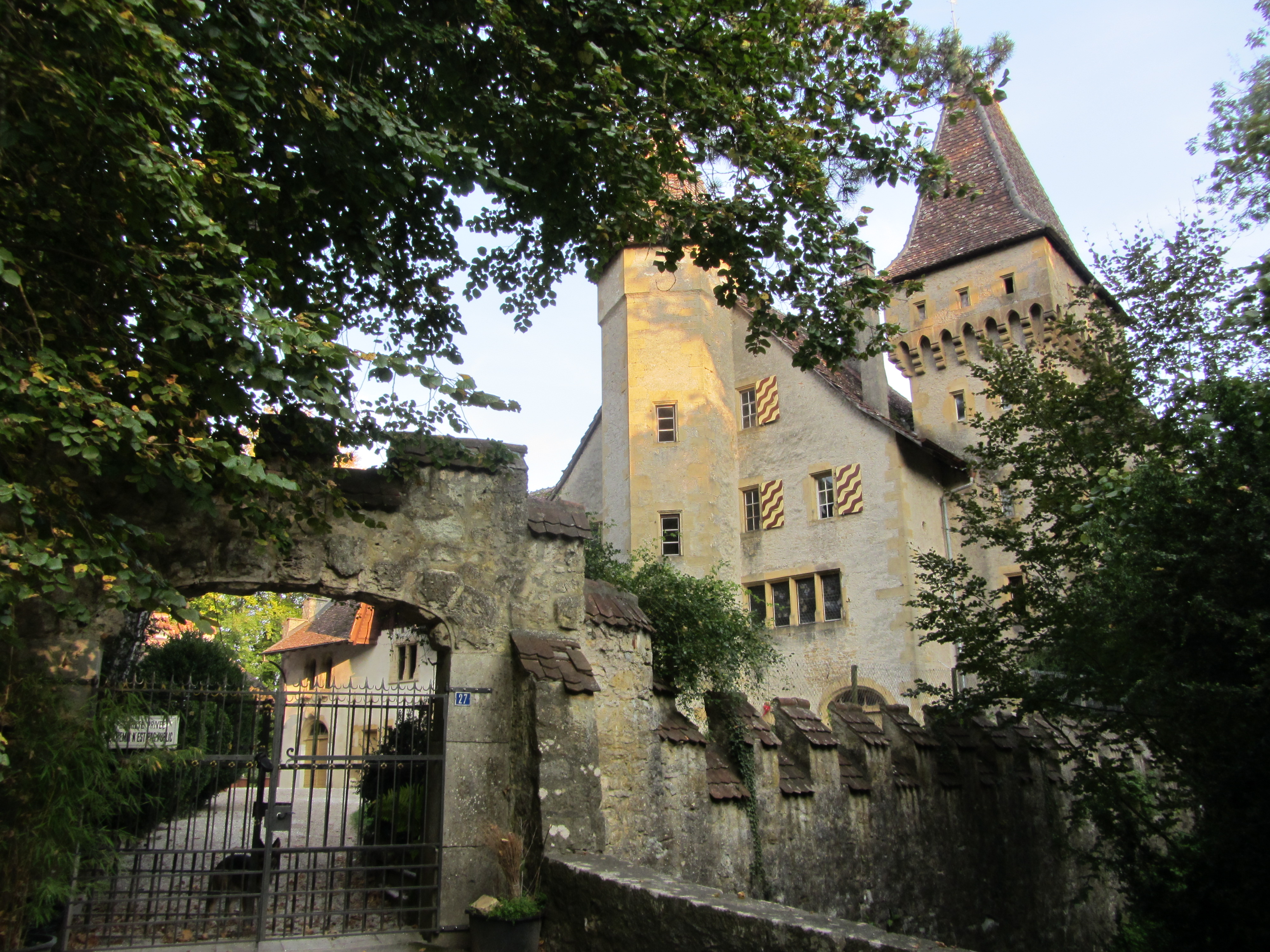 Switzerland, Cressier, Castle Jeanjaquet, entrance